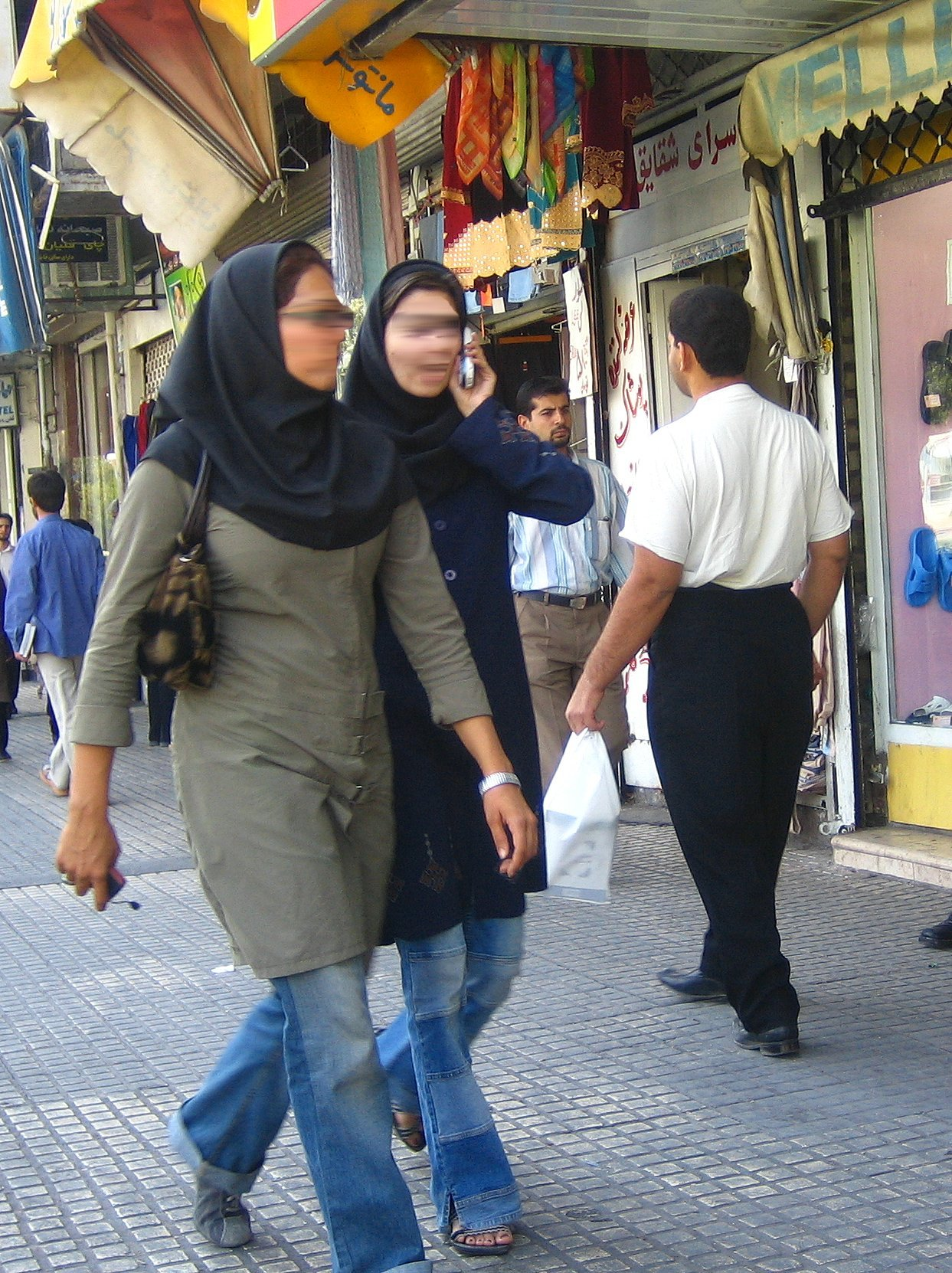 Women on the street in Shiraz